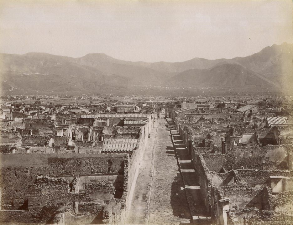 Giacomo Brogi (1822-1881) - "Pompei - Panorama taken from the city walls". Catalogue: # 5052.